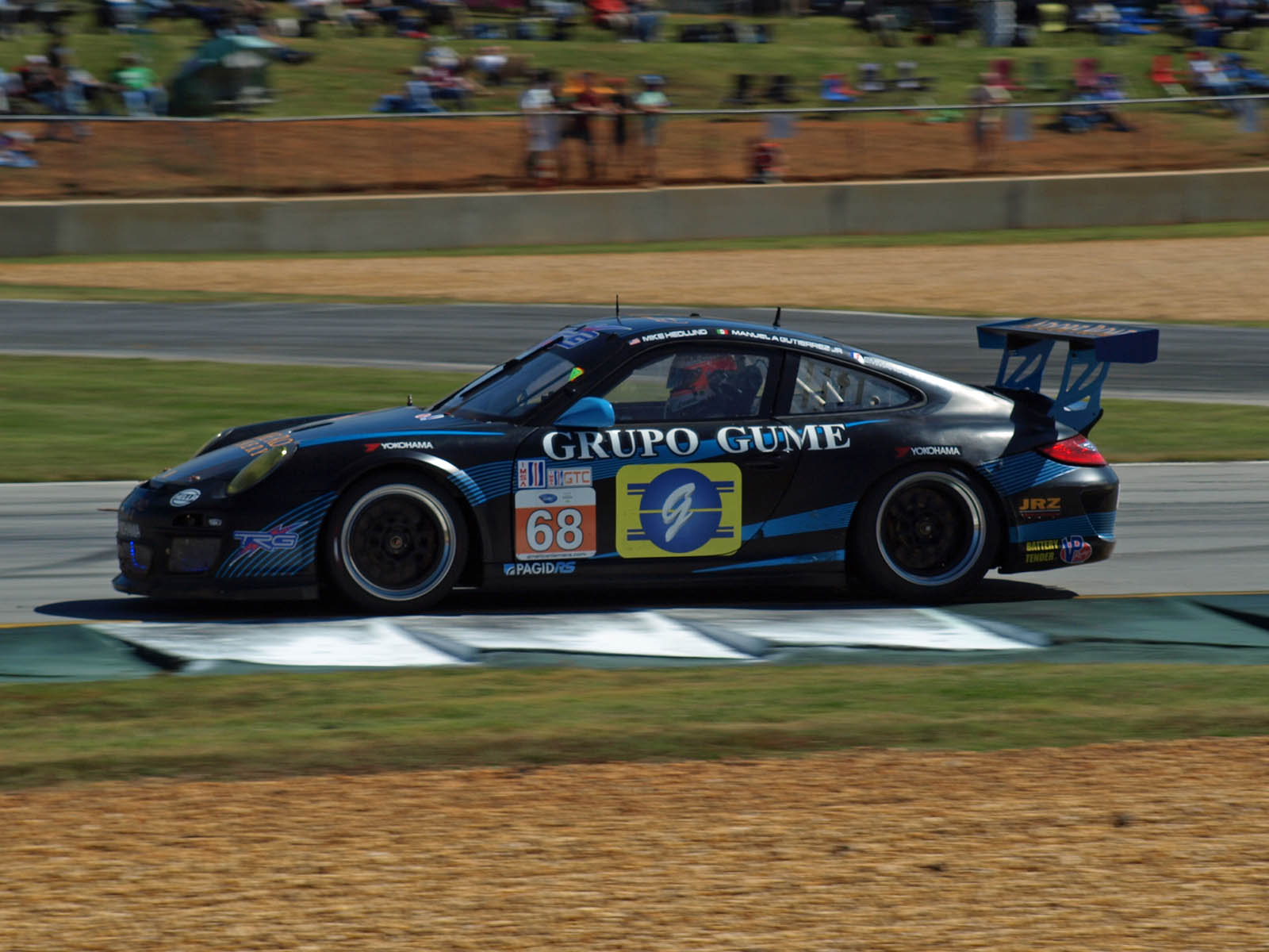 Emmanuel Collard in the TRG Porsche 997 GT3 Cup at the 2012 Petit Le Mans